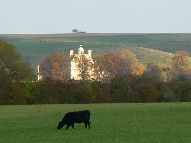 Ashdown House, near Lambourn